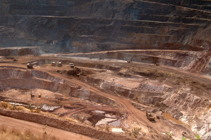 Working at the Yatela Mine in Mali